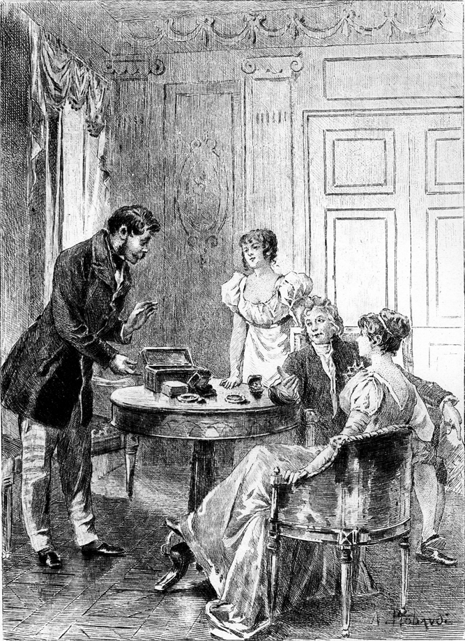 Title page of Honoré de Balzac's Gaudissart II. "Finally, after ten minutes the prince is consulted."